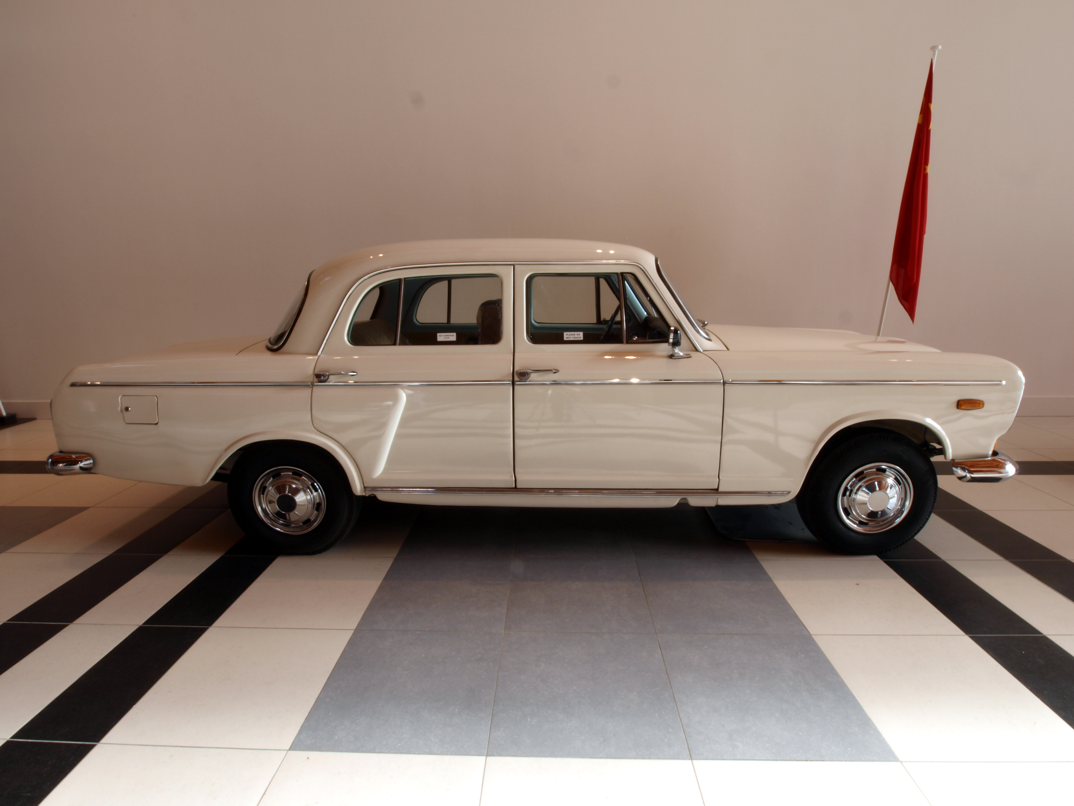 Photographed at the Louwman museum / Louwman Collection, The Netherlands.